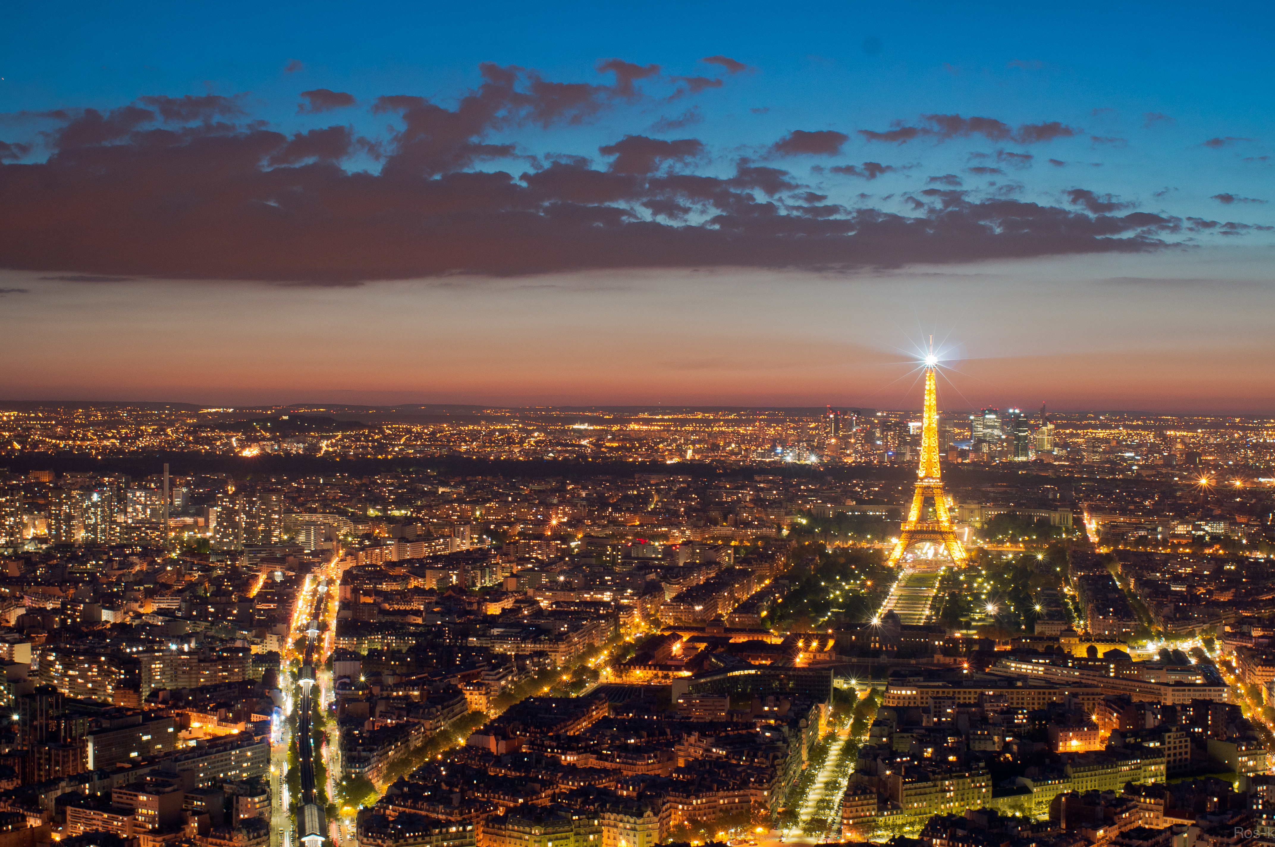 Eiffel Tower from the Tour Montparnasse.